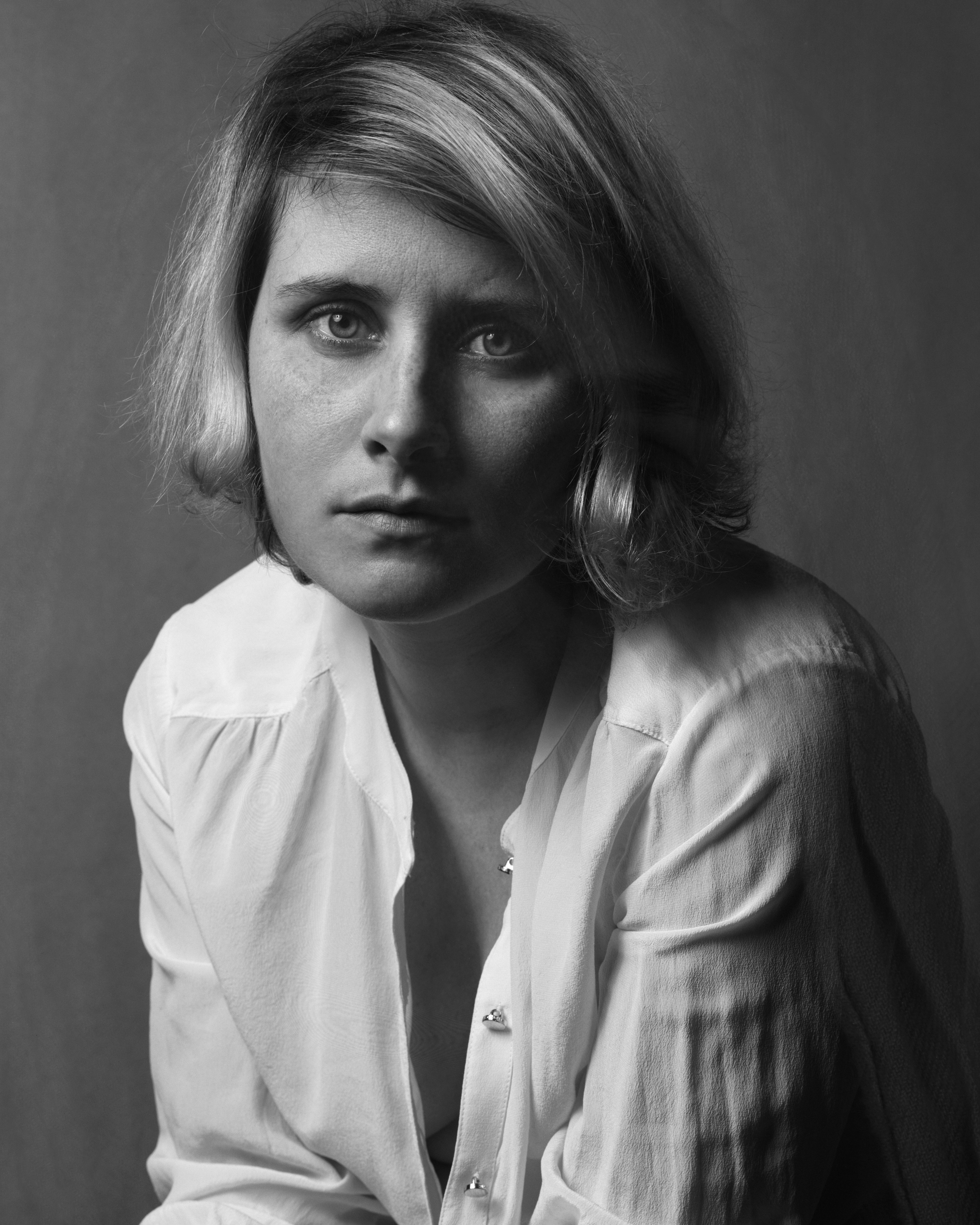 Juliet in crepe blouse.